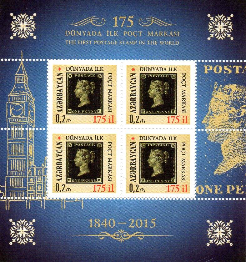 N 1200 - 20 qapik. The 175th Anniversary of the first postage stamp of the world.